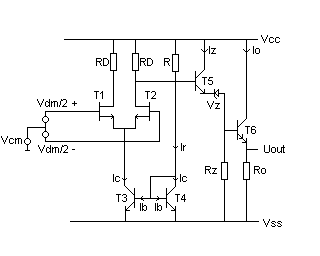 Op-amp architecture